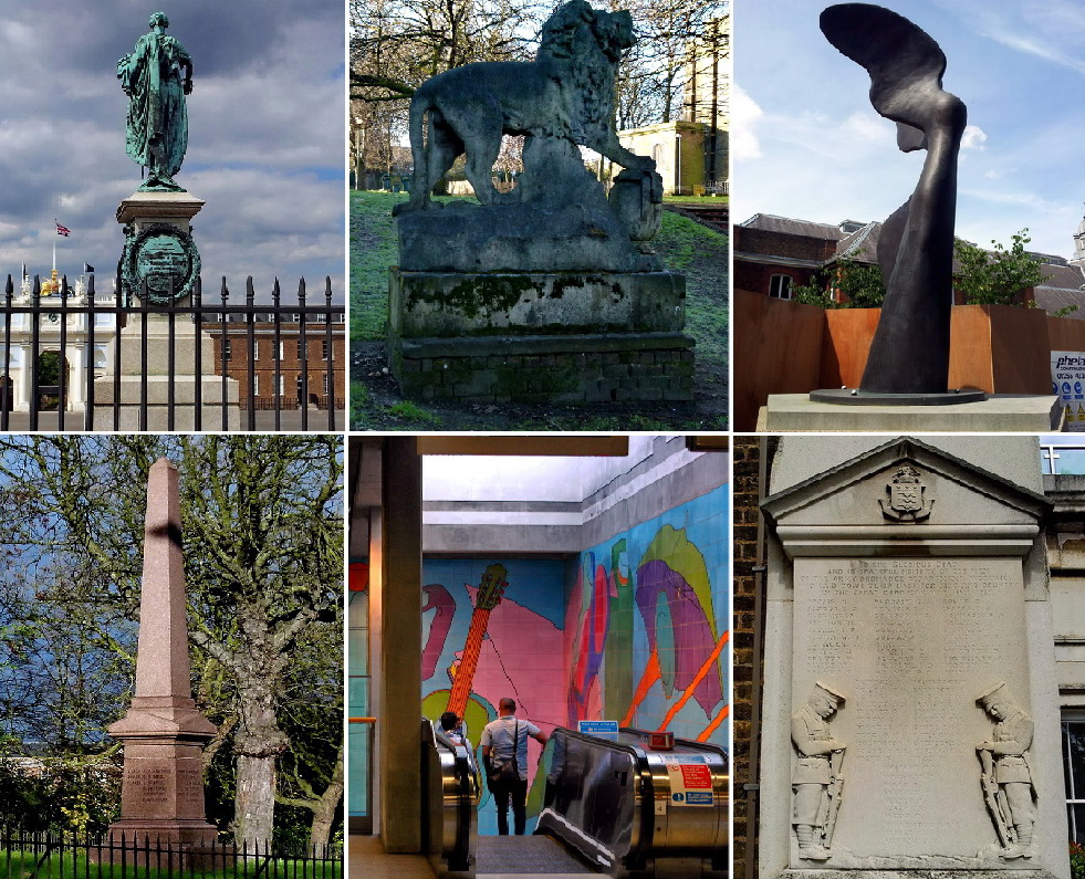 Collage of six photographs (all by Kleon3) of public art in Woolwich, SE London, UK. From left to right, top to bottom: 1) Crimean War Memorial at the Royal Artillery Barracks' parade ground; 2) Lioness resting pawn on urn, or Tom Cribbs memorial, Saint Mary's Gardens; 3) Statue of Nike, goddess of victory, by Pavlos Angelos Kougioumtzis, at the Main Guardhouse, Royal Arsenal; 4) Second Boer War Memorial, near St George's Garrison Church, Grand Depot Road; 5) Street Life, by Michael Craig-Martin in Woolwich Arsenal DLR Station; 6) World War I Memorial, Cadogan Road, Royal Arsenal.